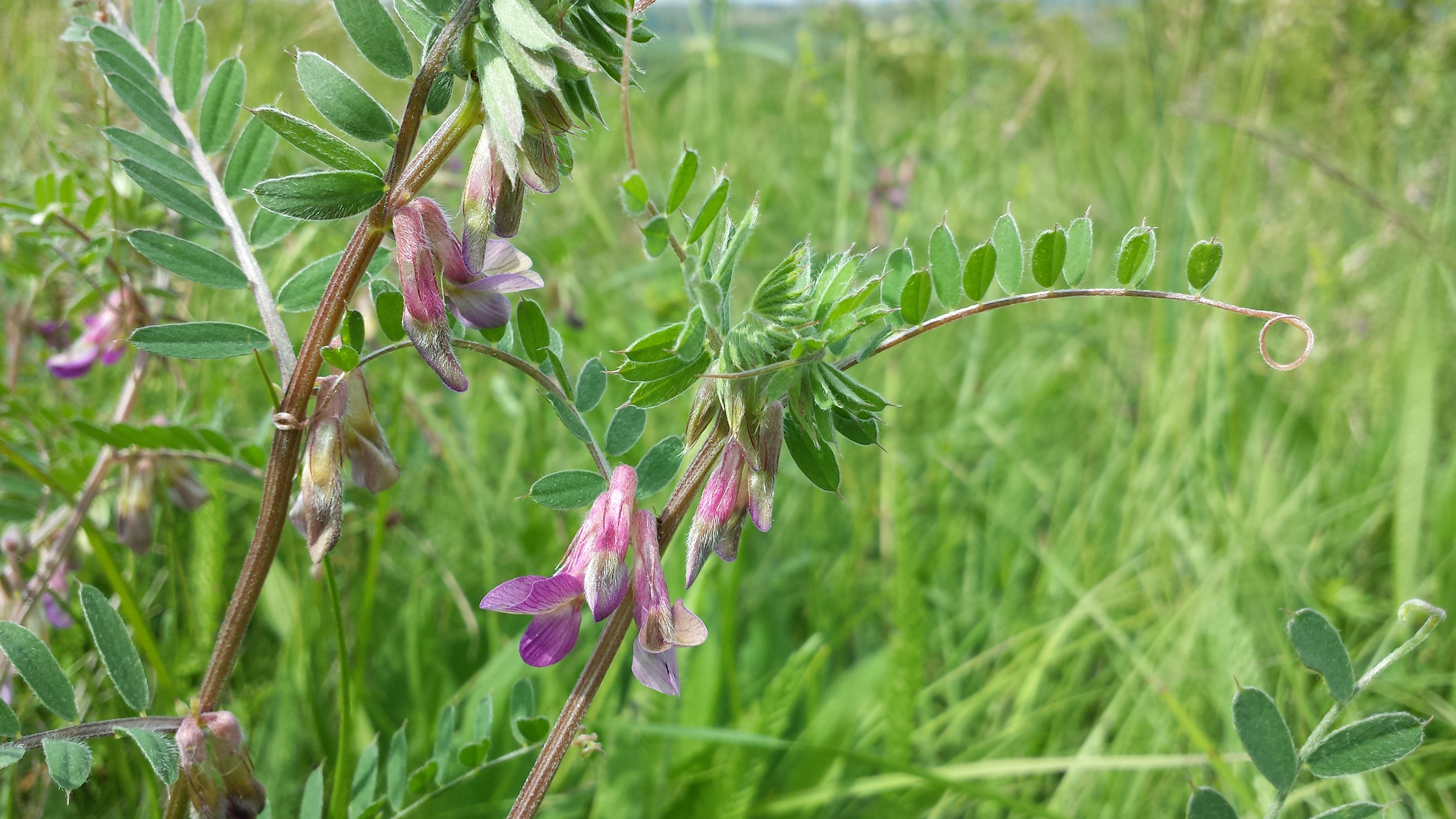 Florescence Taxon: Vicia pannonica subsp. striata (sensu Fischer et al. EfÖLS 2008) Location: Wartberg near Ulrichskirchen, district Mistelbach, Lower Austria - ca. 240 m a.s.l. Habitat: semi dry grassland